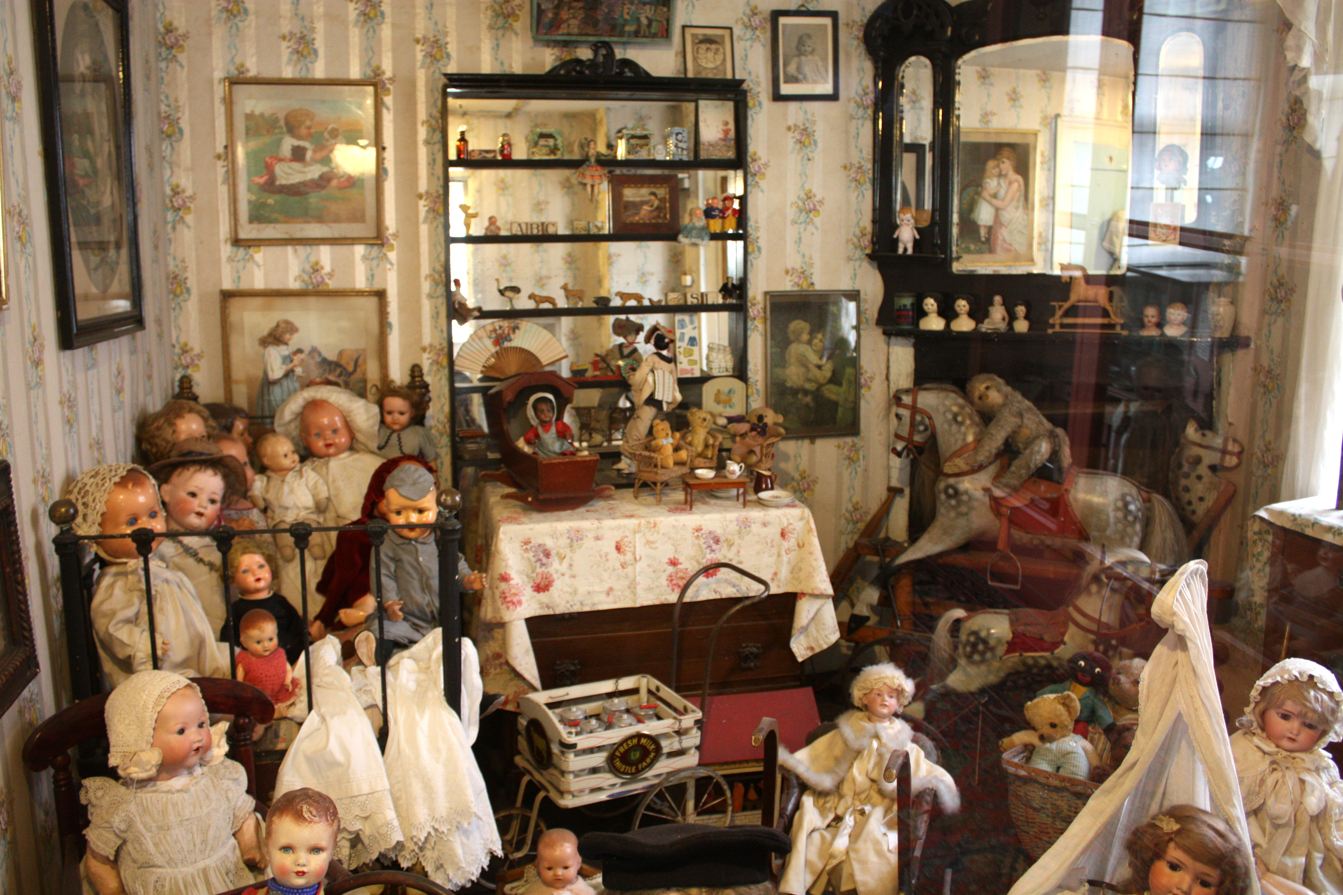 Pollock's Toy Museum 波洛克玩具博物館